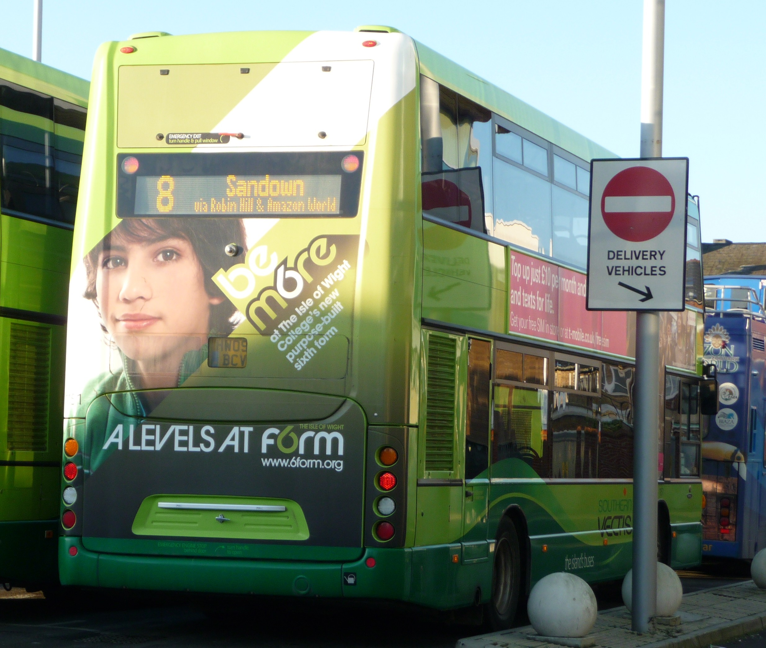 The rear of Southern Vectis 1151 Woodside Bay (HW09 BCV), a Scania CN270UD 4x2 EB OmniCity, in Newport, Isle of Wight, bus station, laying over between duties. In contrast with older photos of 1151, its rear advert for the Isle of Wight College can be seen here.